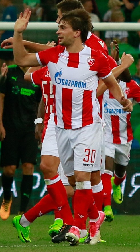 Filip Stojković